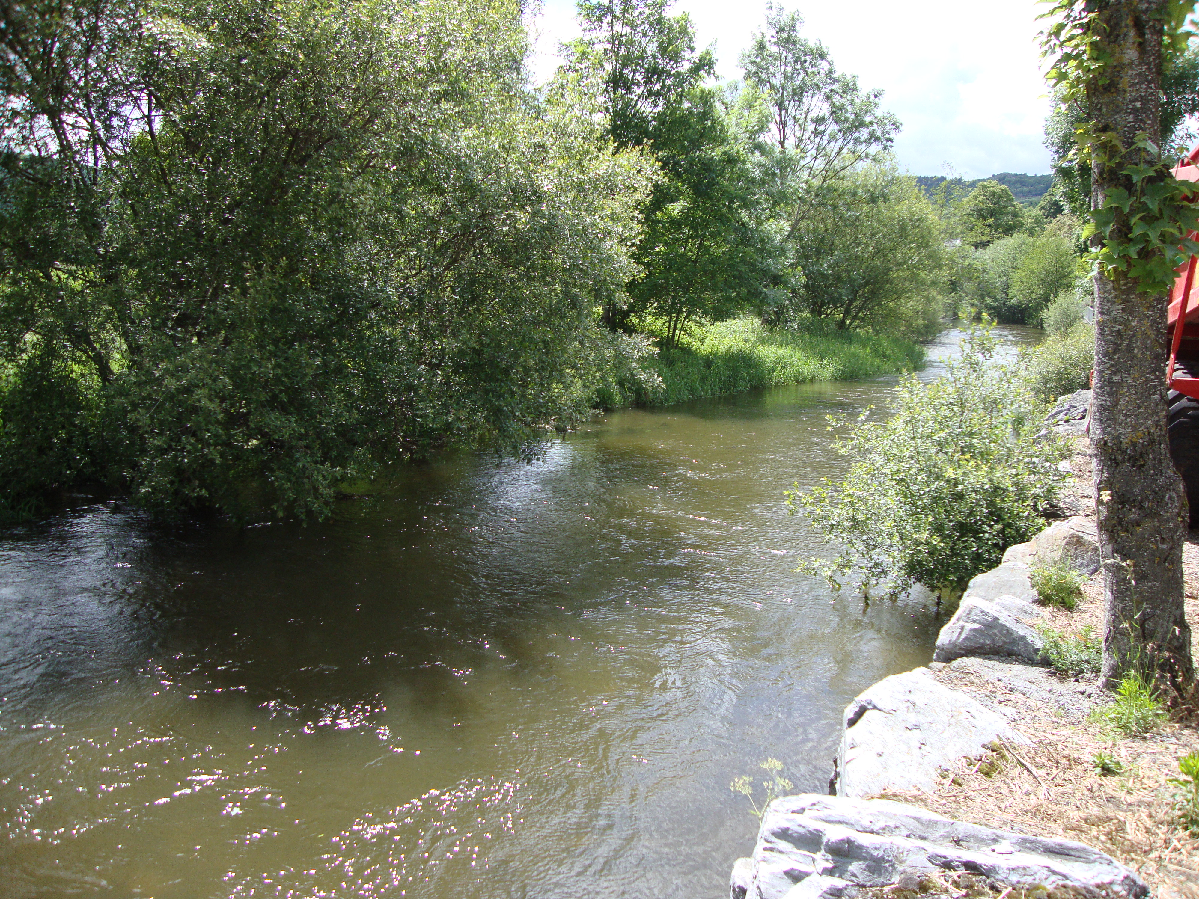 Condomines (Nages, Tarn, Fr) Vèbre river.